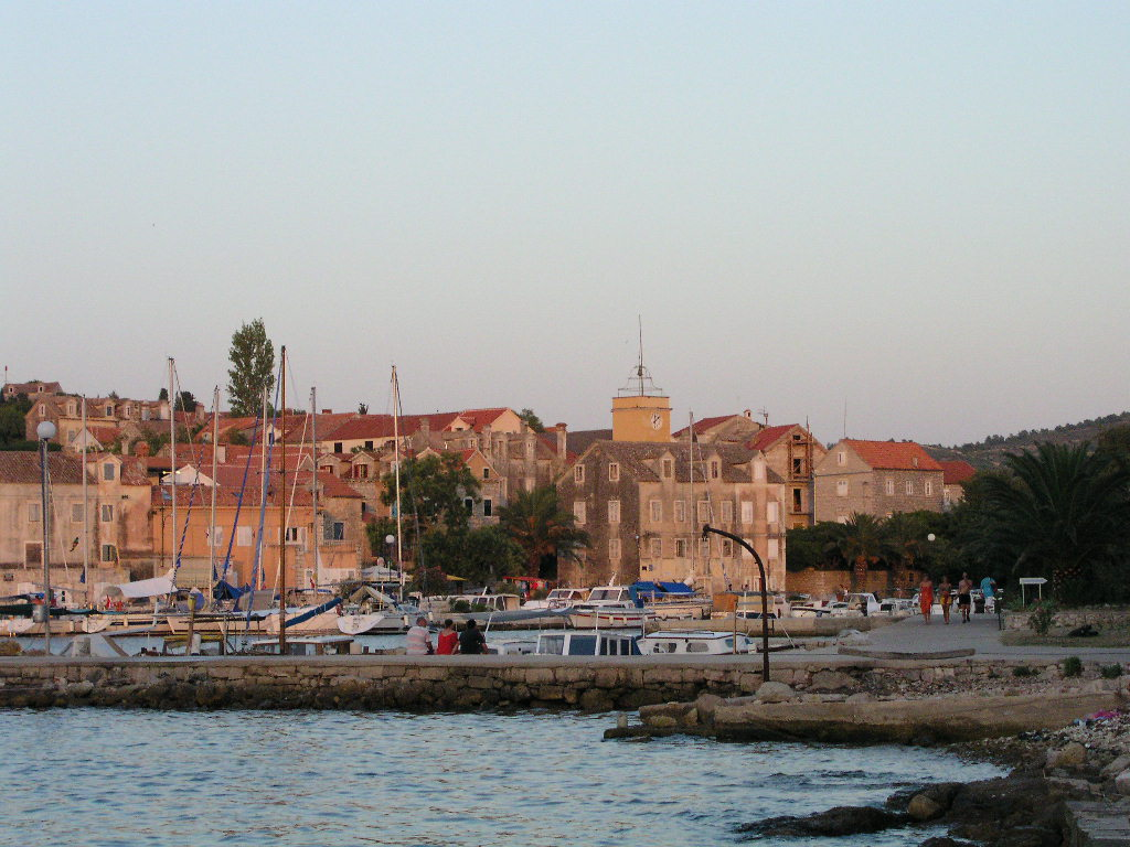 Zlarin is a small island of the Dalmatian coast of Croatia